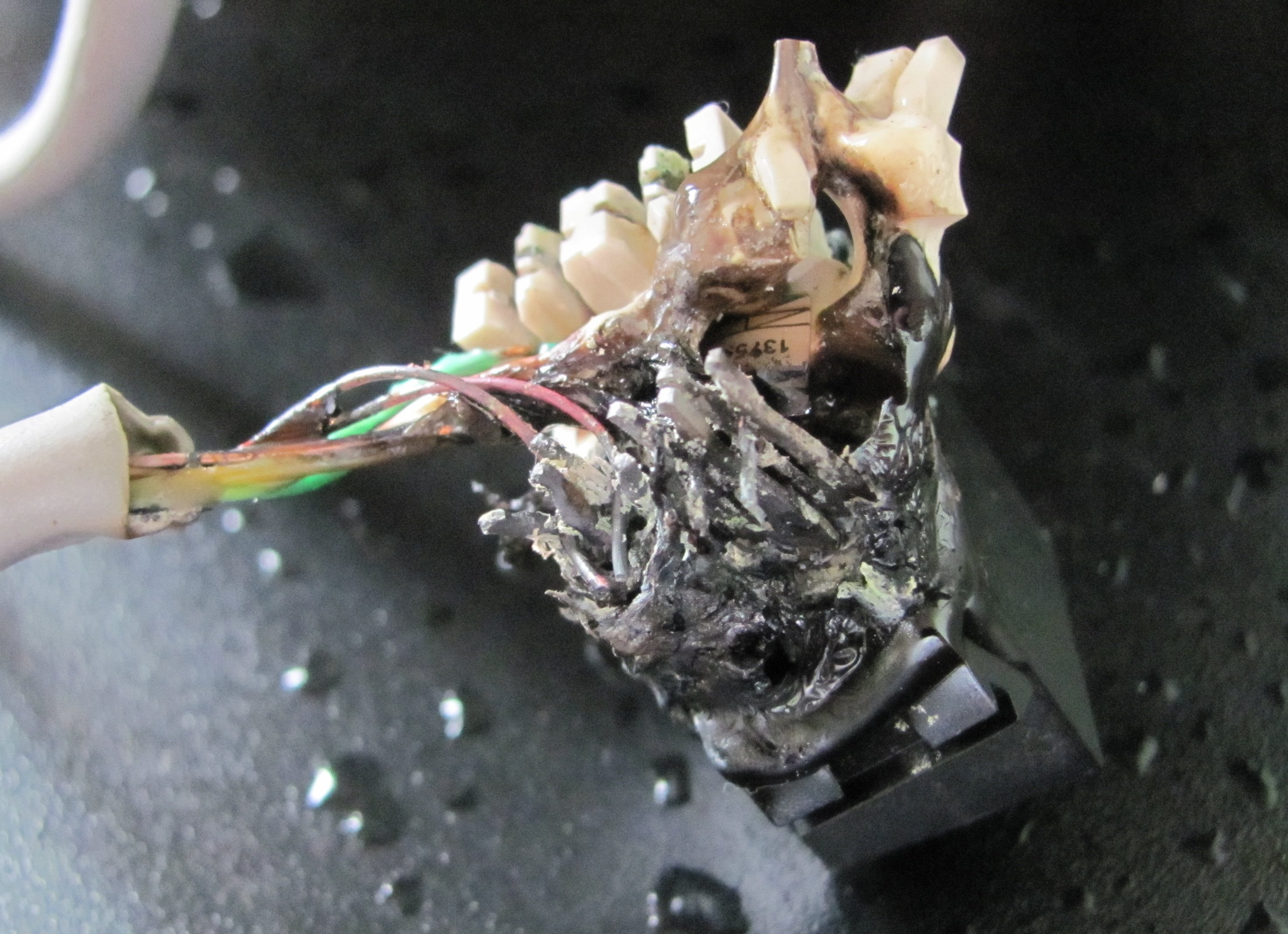 Short circuit generated by water on RJ45 connectors used for PoE